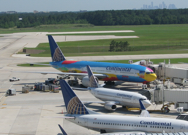 Daniel2986 05:24, 28 December 2006 (UTC)